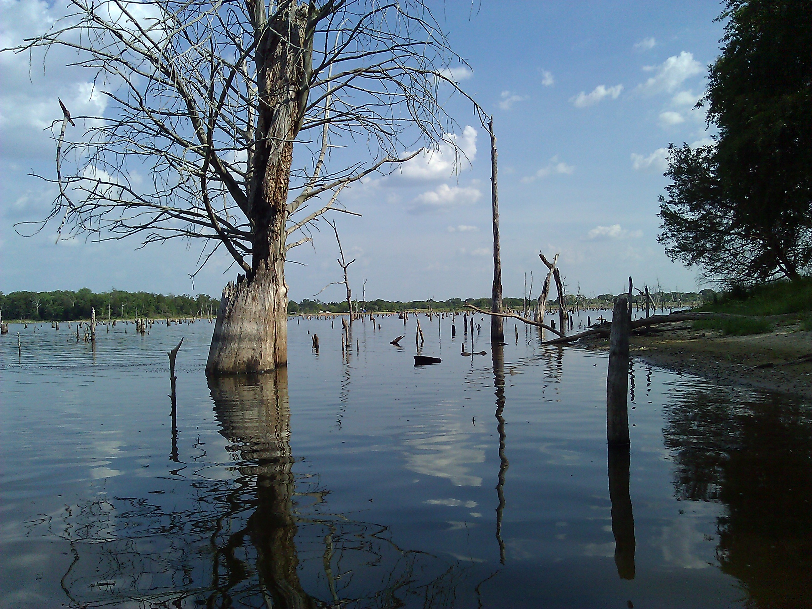 Purtis Creek State Park